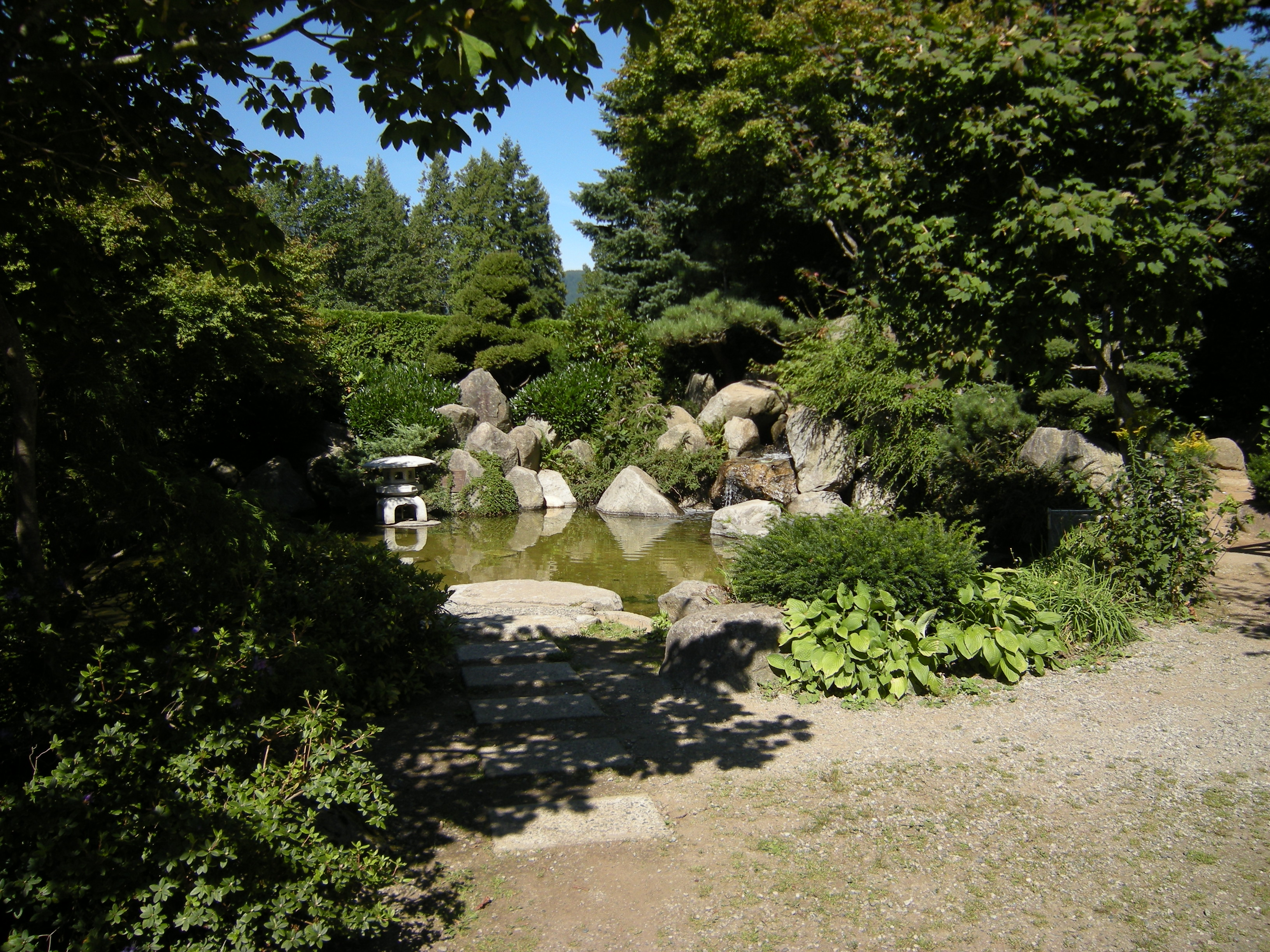 Friendship Garden, a Japanese garden in Hope, British Columbia. The garden was built by local Japanese Canadians to commemorate the Japanese Canadians who were interned nearby at Tashme Camp, during World War II.